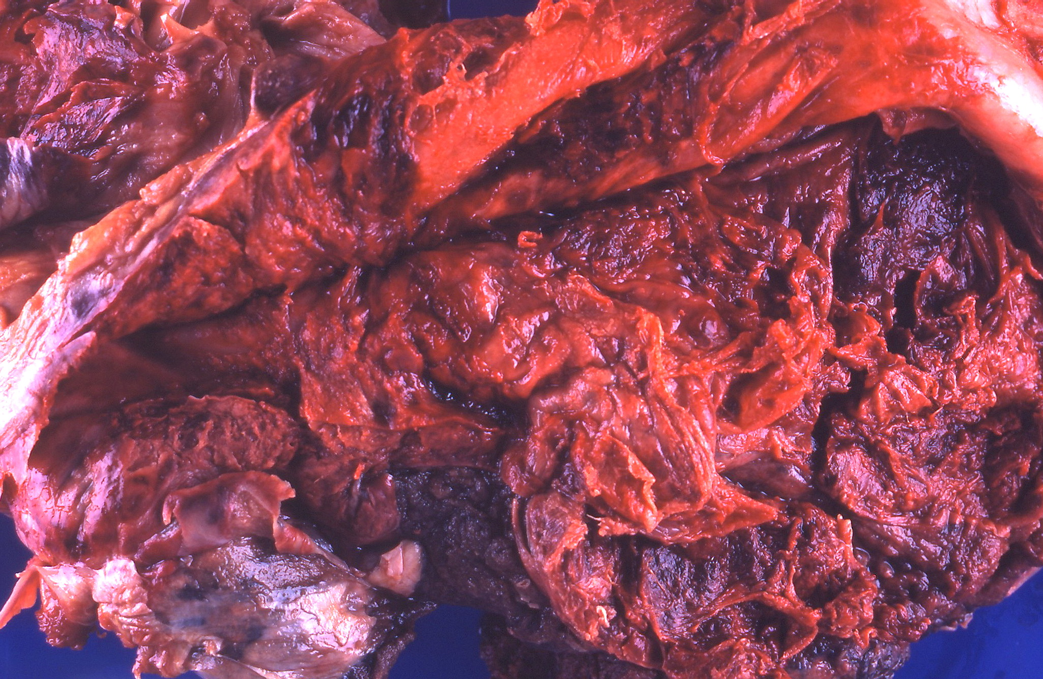 A large blood clot filling the entire pleural cavity.